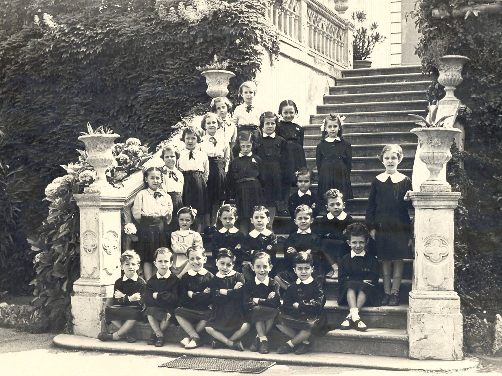 Scuola Madre Cabrini Genoa